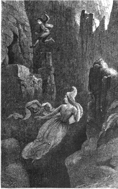 An engraving showing a man jumping after a woman (an elf) into a precipice. It is an illustration to the Icelandic legend of Hildur, the Queen of the Elves.